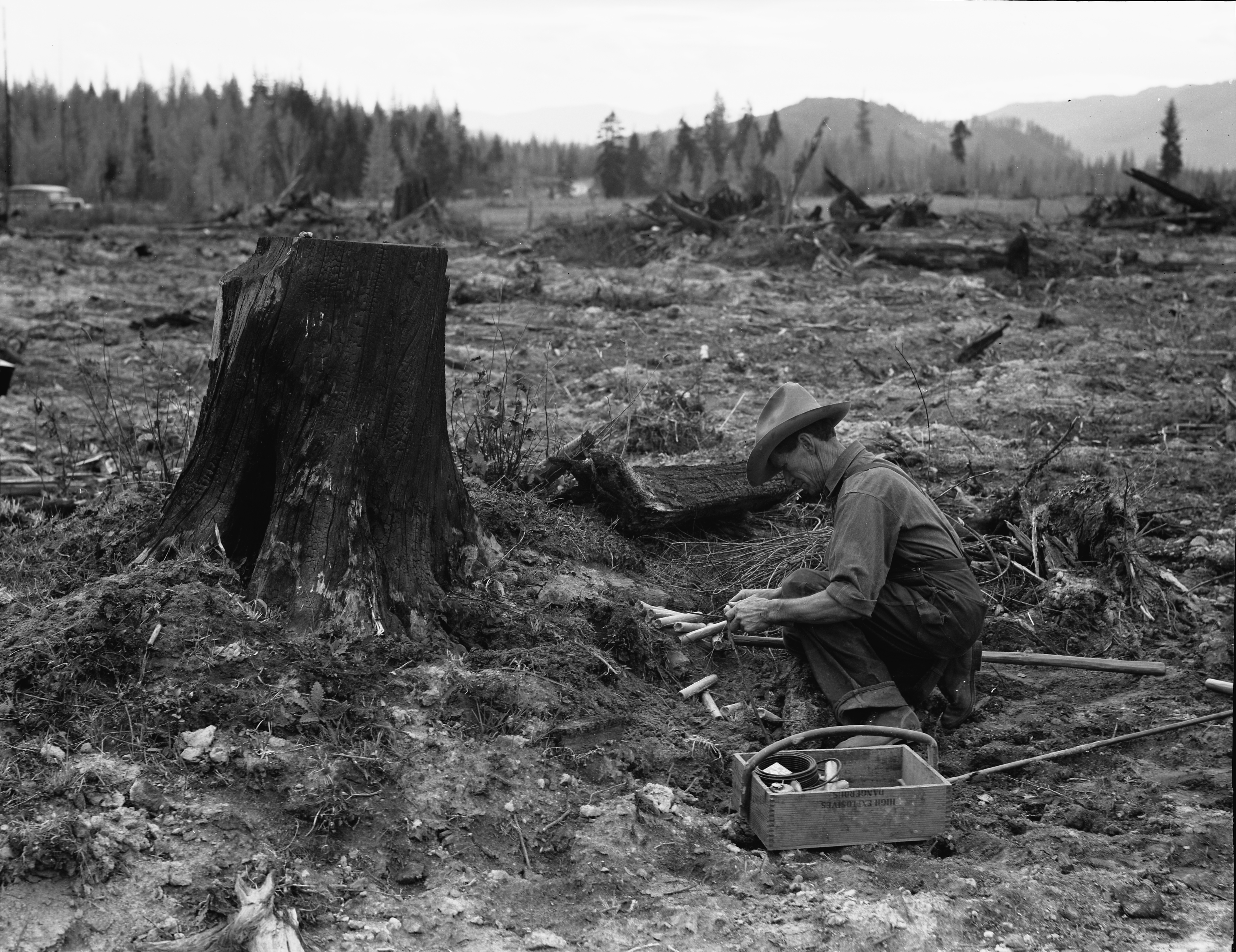 Farmer preparing to blow tamarack stump. It will take fourteen sticks of dynamite. Bonner County, Idaho